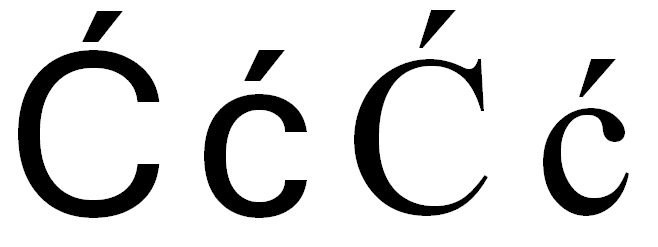 Latin_letter_Ćć.